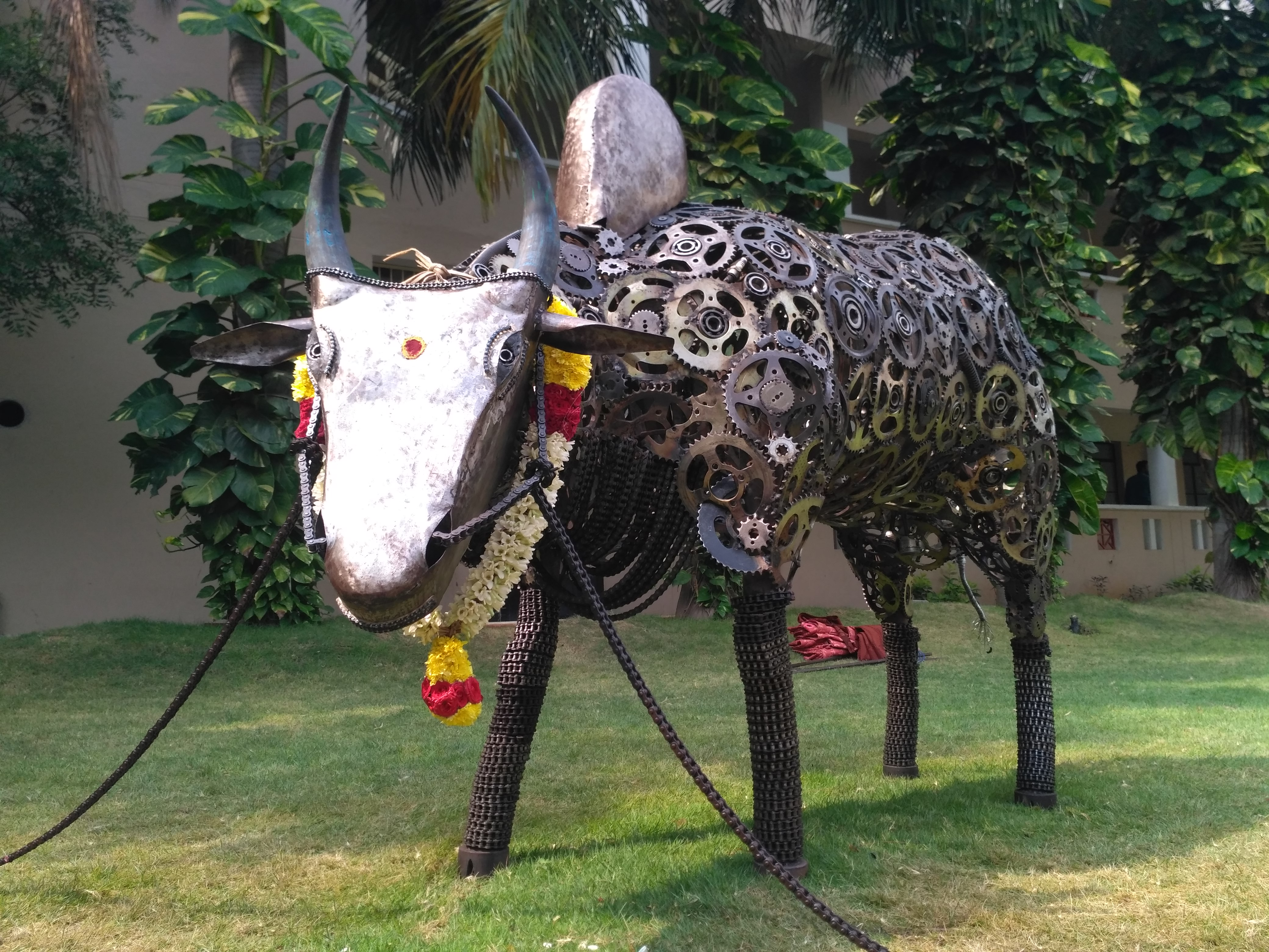 Enthira kaalai as a memory of Jallikkattu